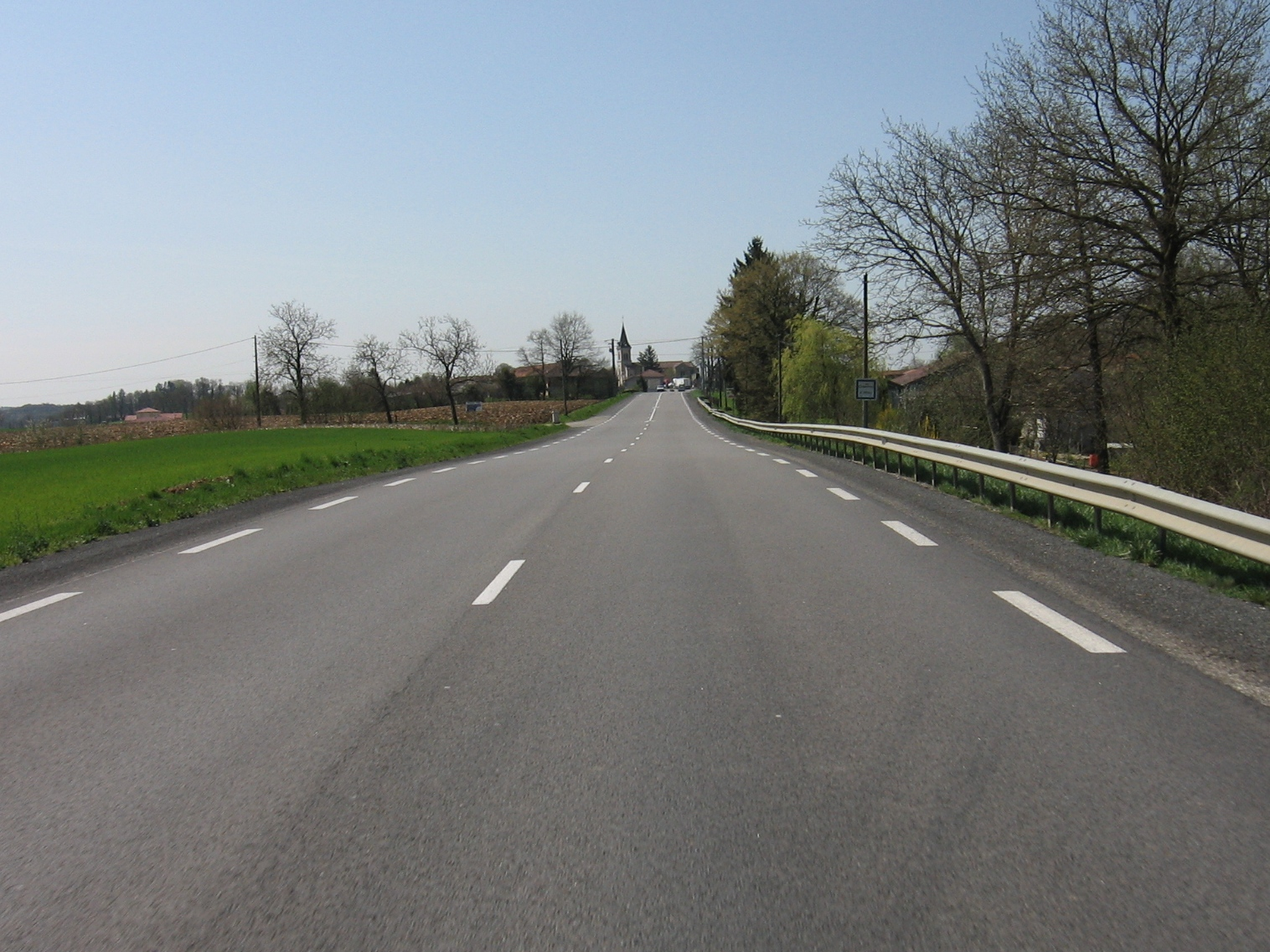 N83 / D1083 near Villemotier